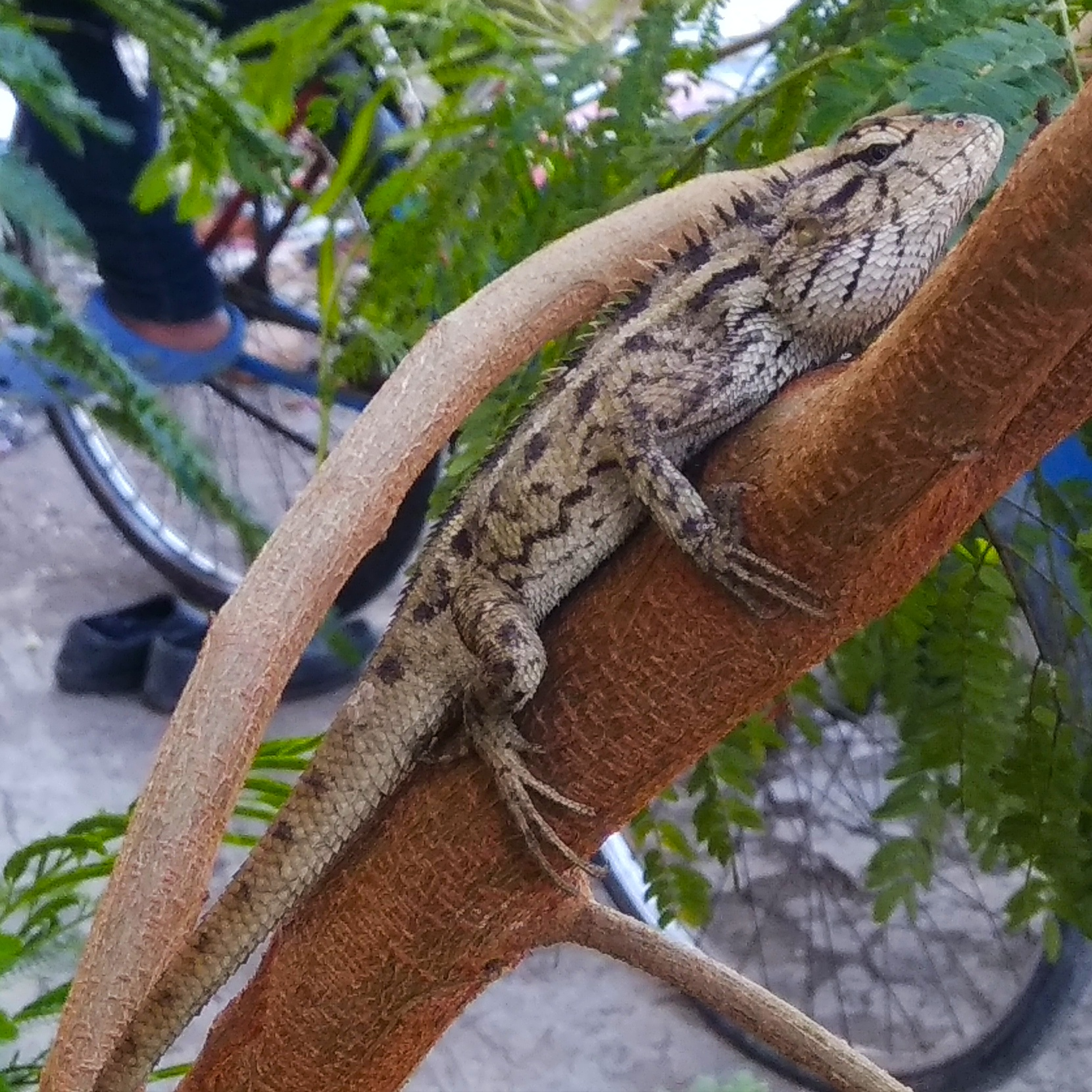 Oriental garden lizard on Leucaena leucocephala tree